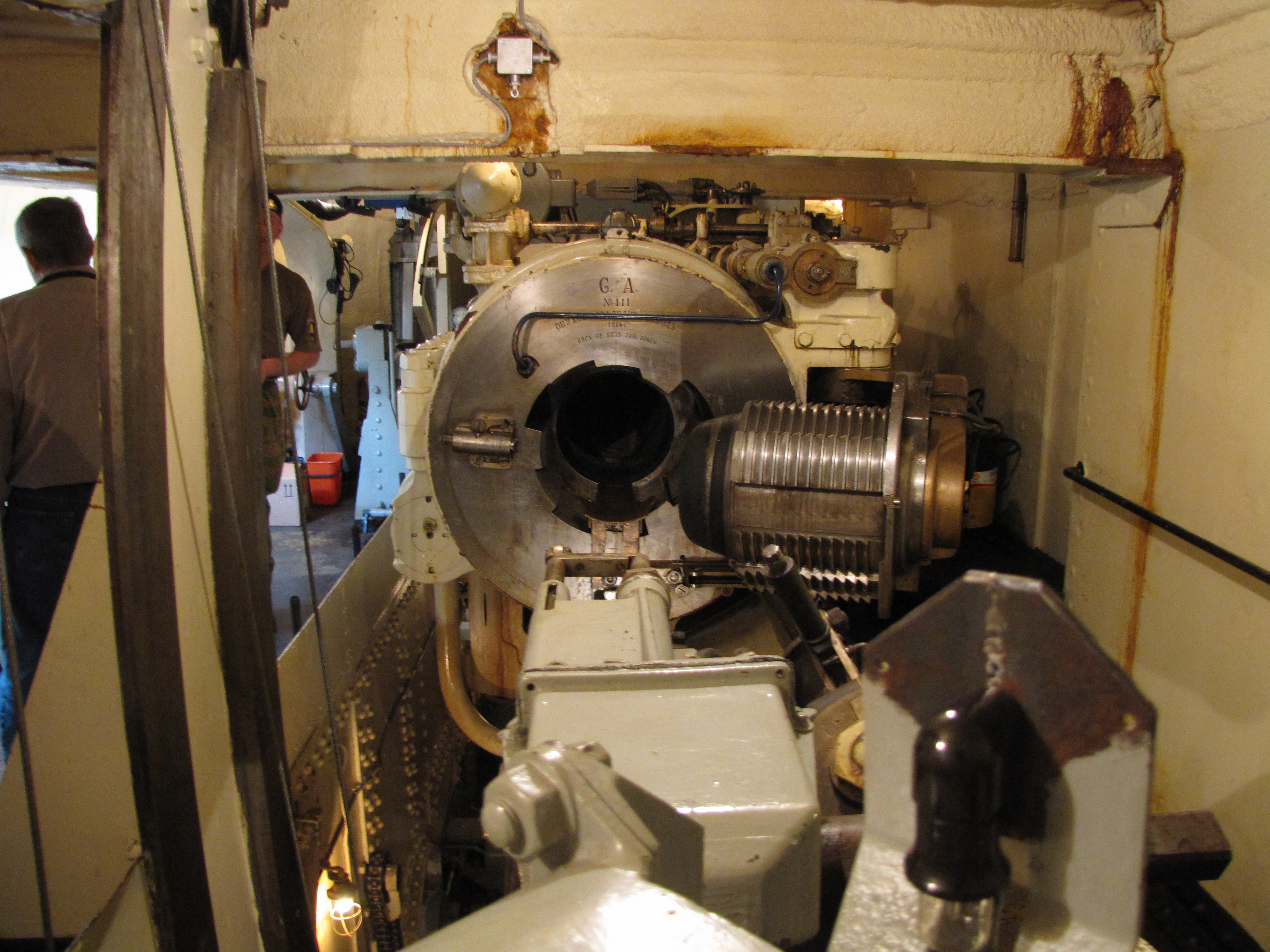 Breech of Kuivasaari 305 mm gun. This is the left gun of a twin turret.